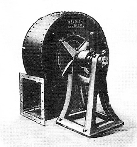 Image showing a „Beth“-Exhaustor „R“